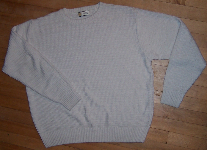 Jumper sweater